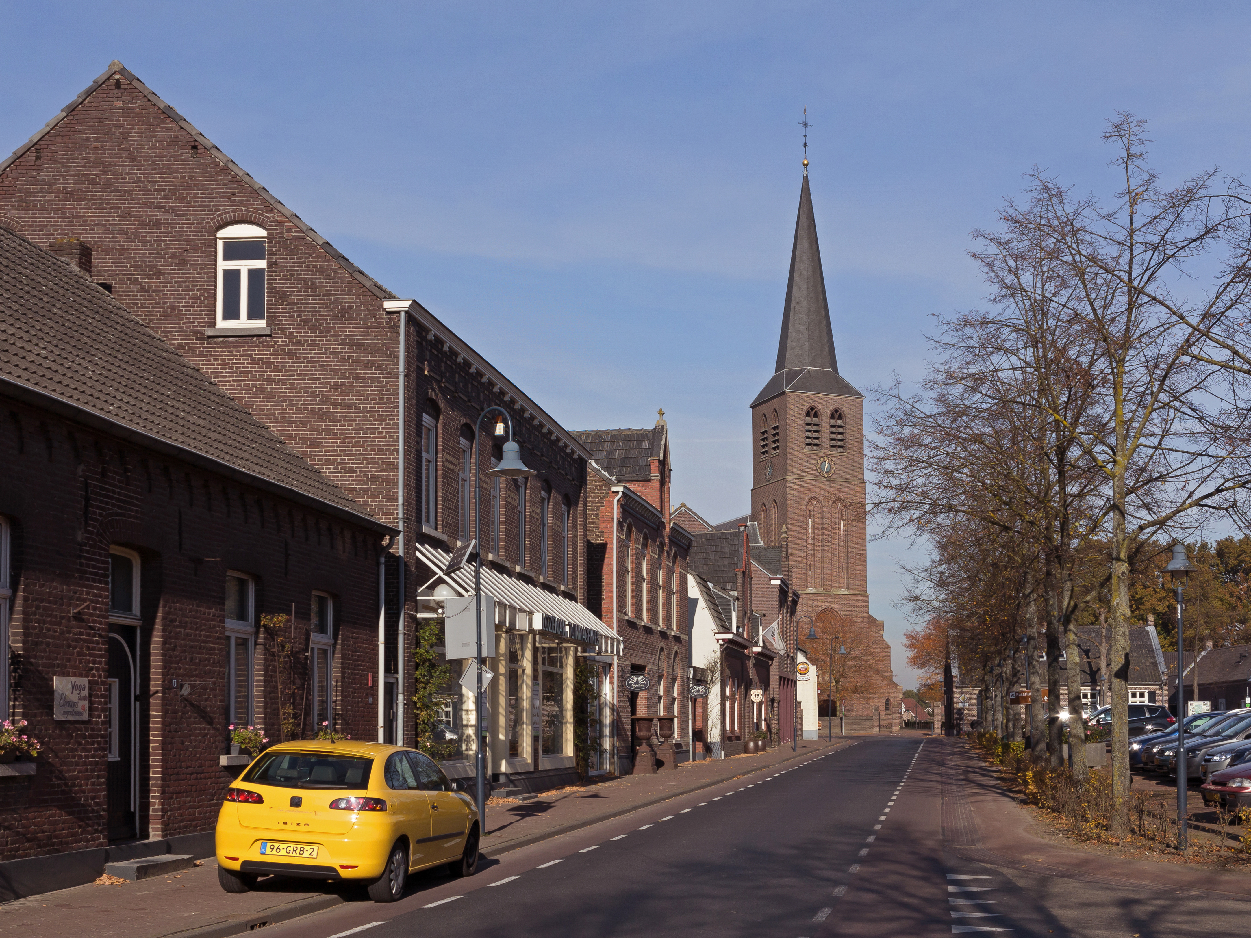 Lottum, church (de Sint Gertrudiskerk) in the street